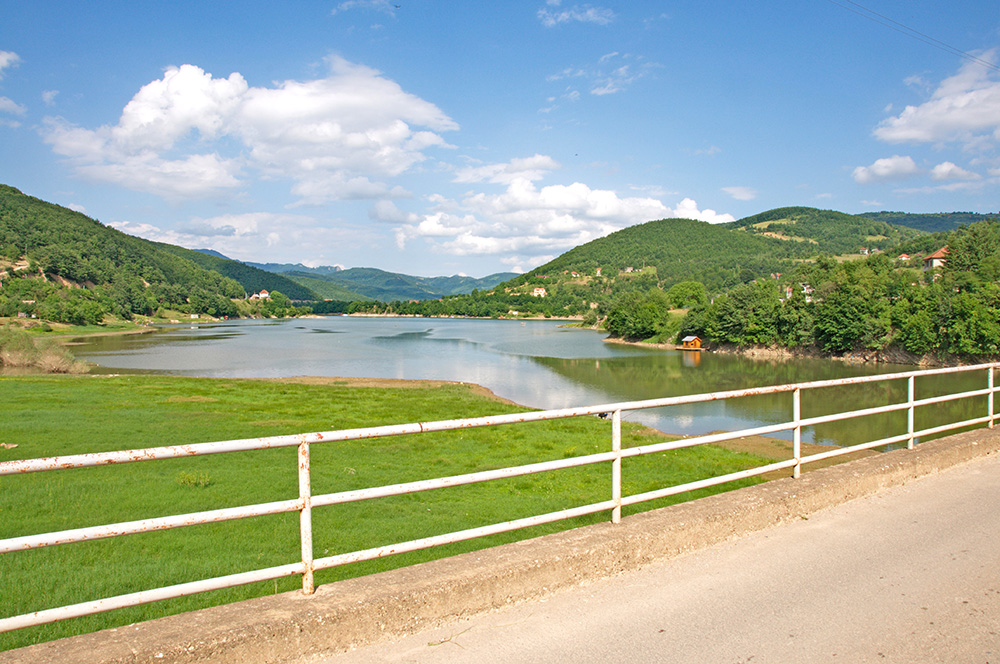 Gazivoda lake is an artificial lake. It was created by building a dam on the river Ibar. Part of the lake is situated in Kosovo and is the subject of a territorial dispute between Kosovo and Serbia. The water of the lake is used for water supply, irrigation, recreation and fishing. The shores of the lake are not populated, so the natural environment preserved.